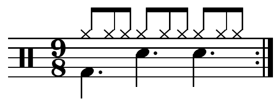 Compound triple drum pattern: divides three beats into three. Created by Hyacinth (talk) 10:24, 25 November 2010 using Sibelius 5.